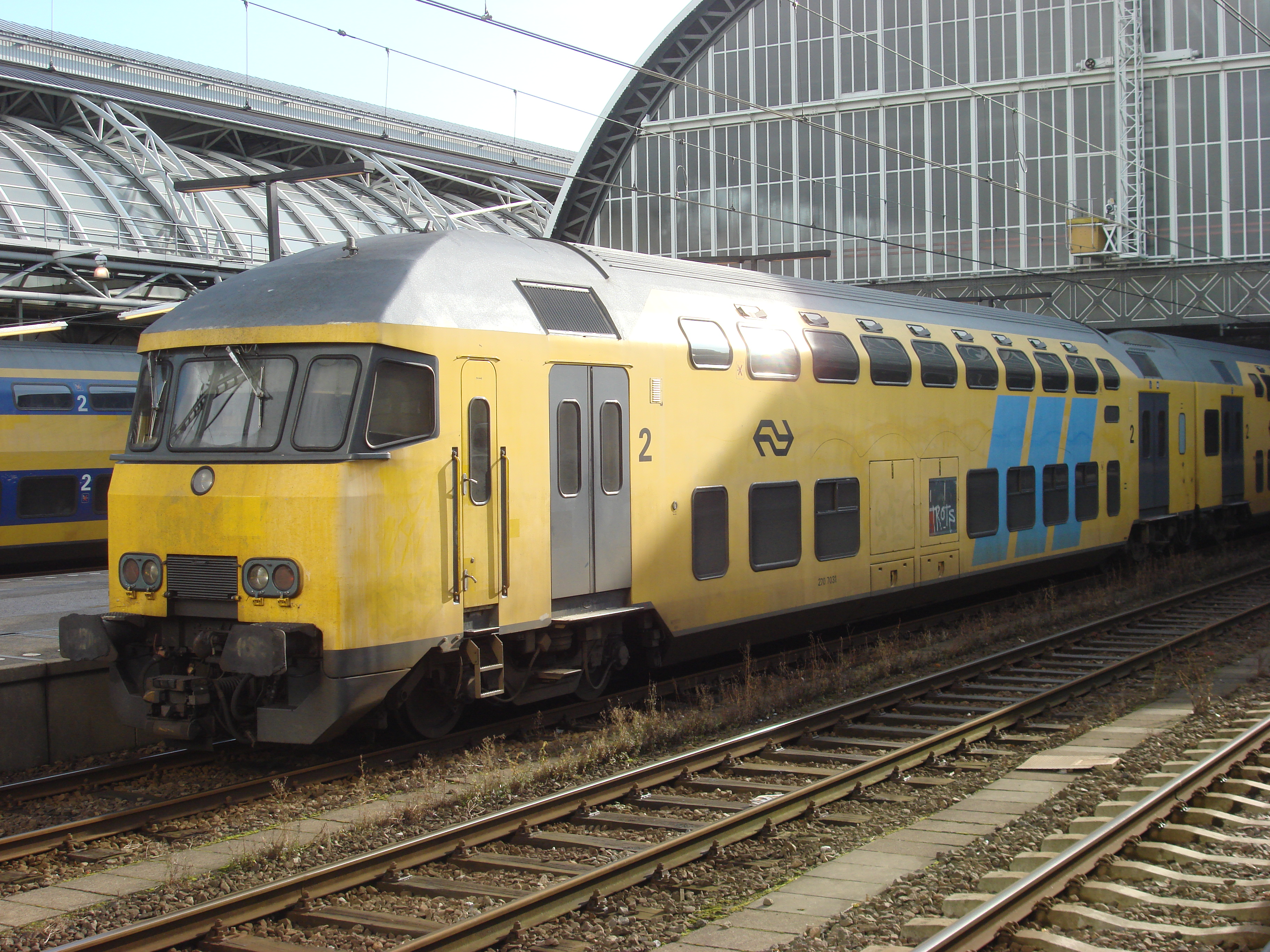 Nederlandse Spoorwegen or NS(Dutch Railways) DDM at Amsterdam Centraal railway station